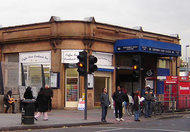 Shepherd's Bush Tube Station. 25 November 2005. Photographer: Fin Fahey.